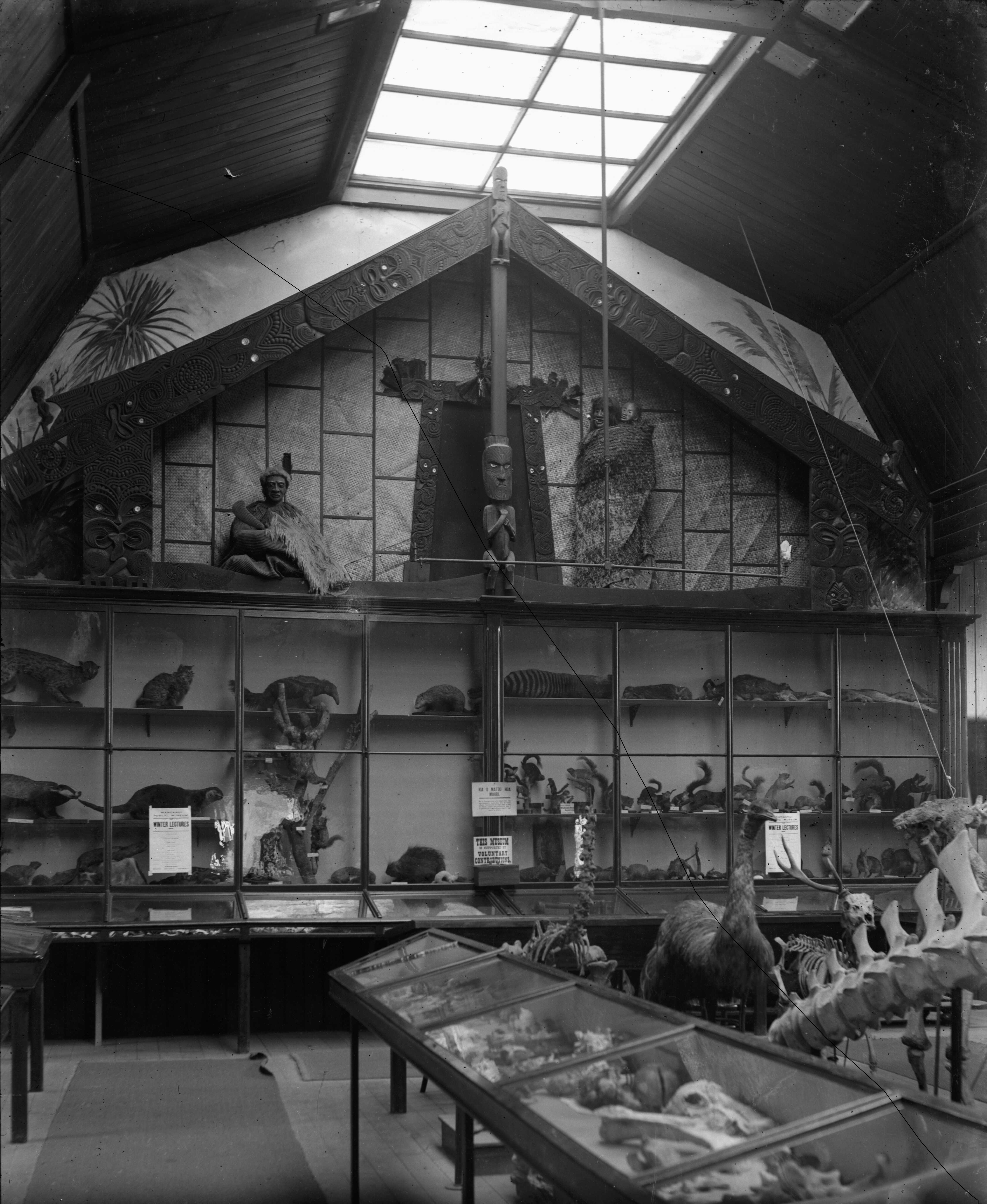 Interior view of the Wanganui Public Museum, showing skylight, display cabinets, and Maori carving. Photograph taken by Albert Percy Godber circa 1920.